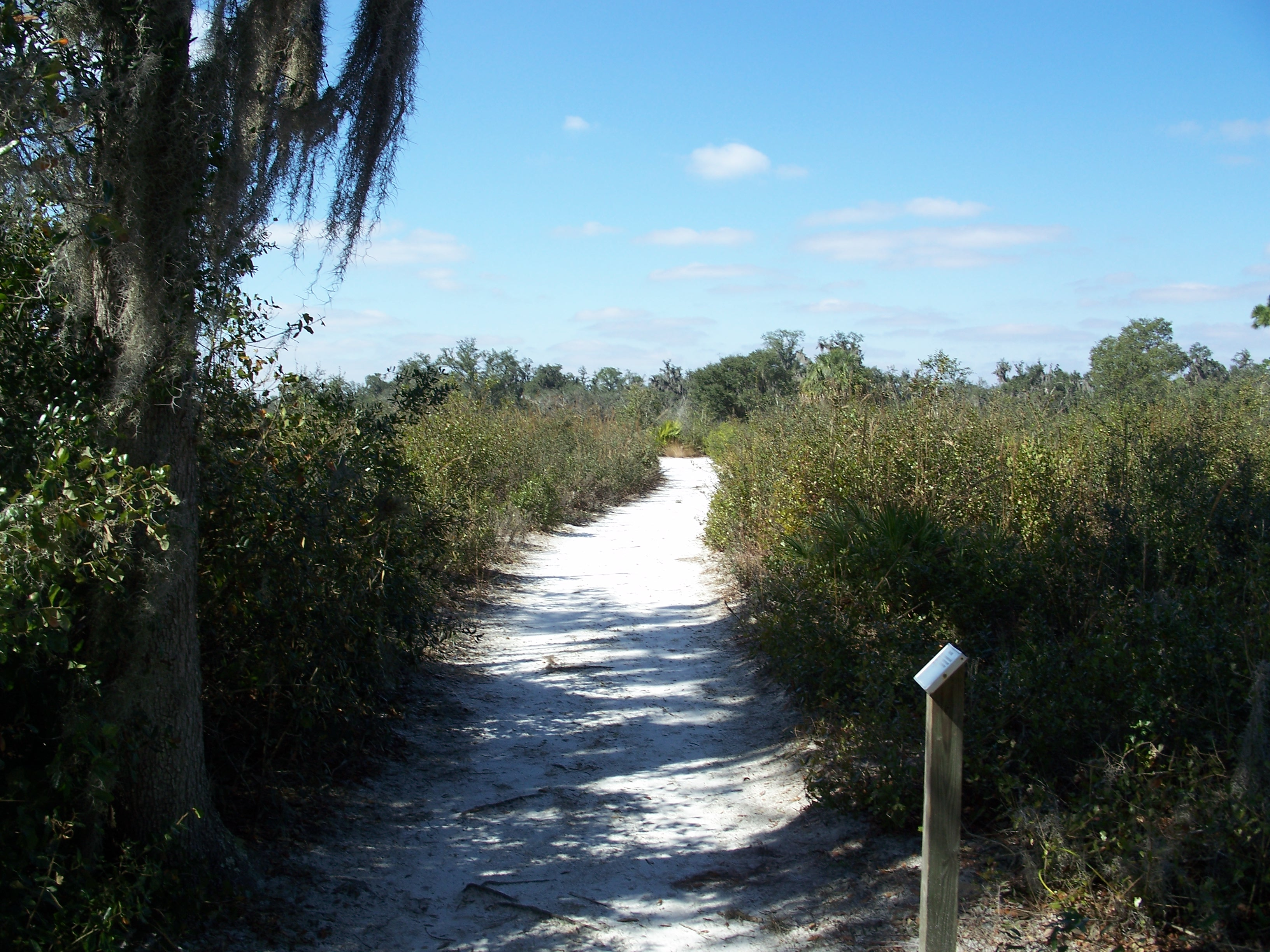 Paynes Creek Historic State Park: Path to the Fort Chokonikla site.